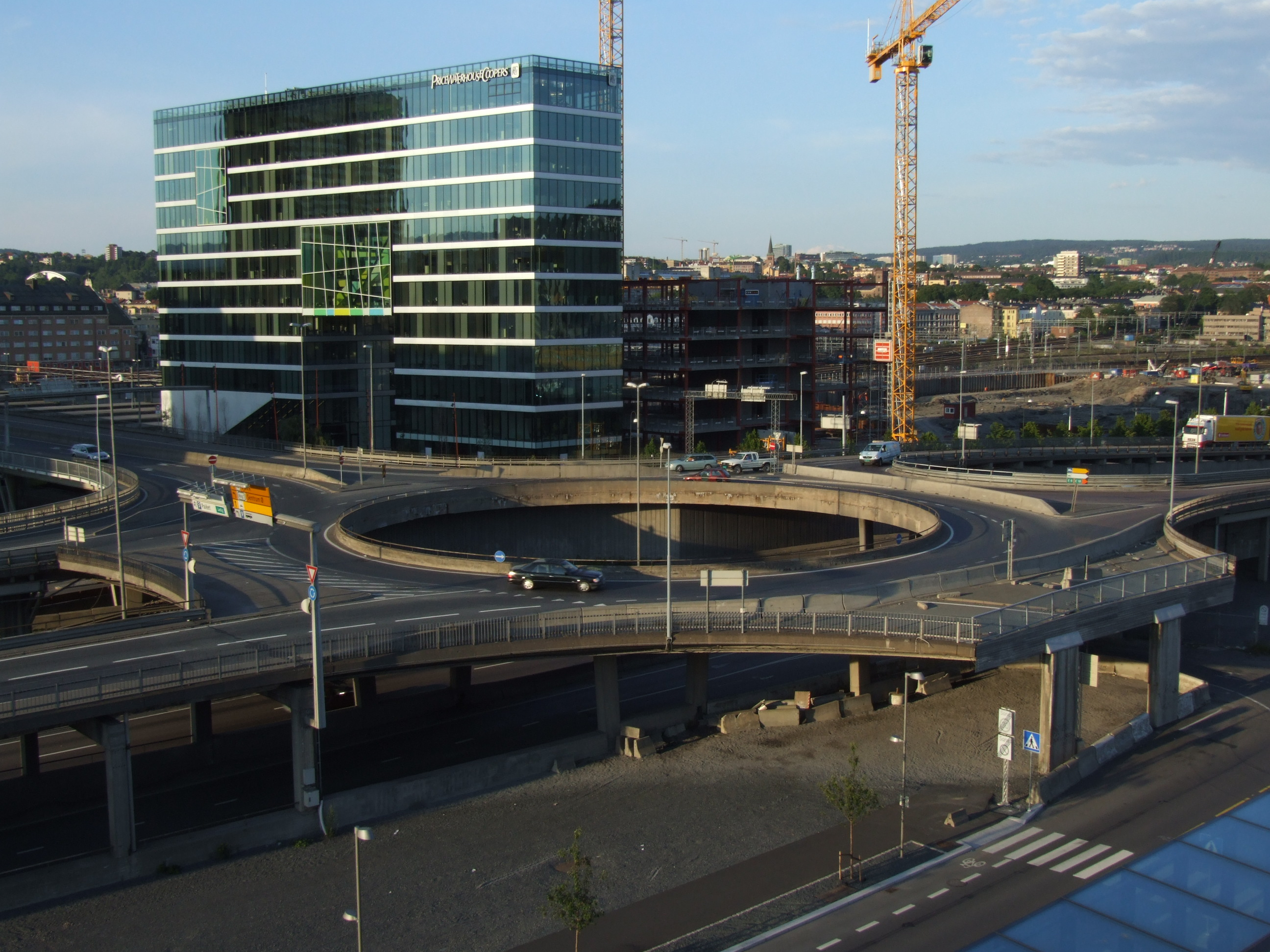 The so-called Bispelokket (“Bishop's lid”) interchange in Bjørvika, Oslo, Norway. Highway 162 (until 2010: Highway 4) starts here (as Nylandsveien), while European route E18 (as Bispegata) goes under it.